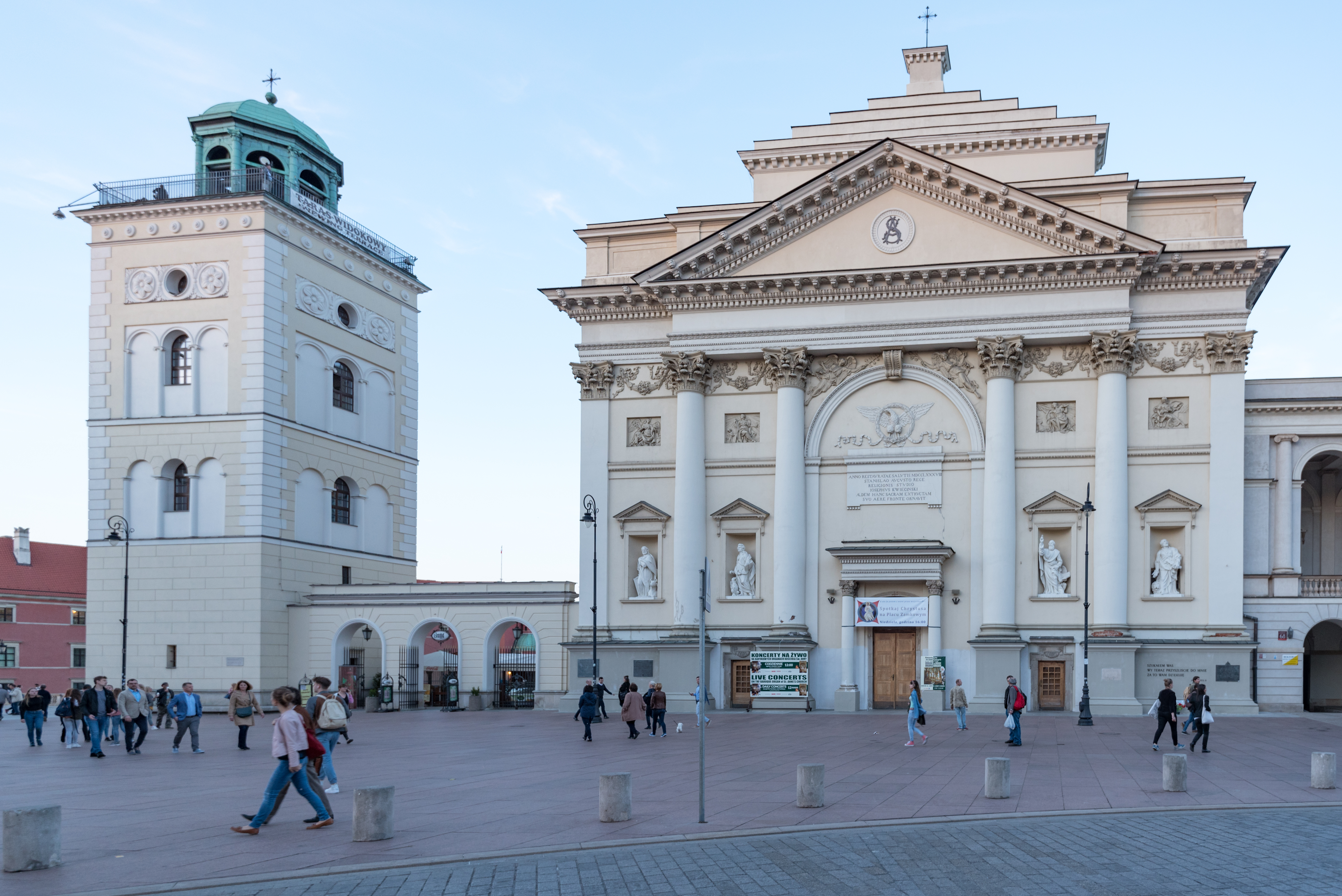 Warszawa, pl. Grzybowski 3-5